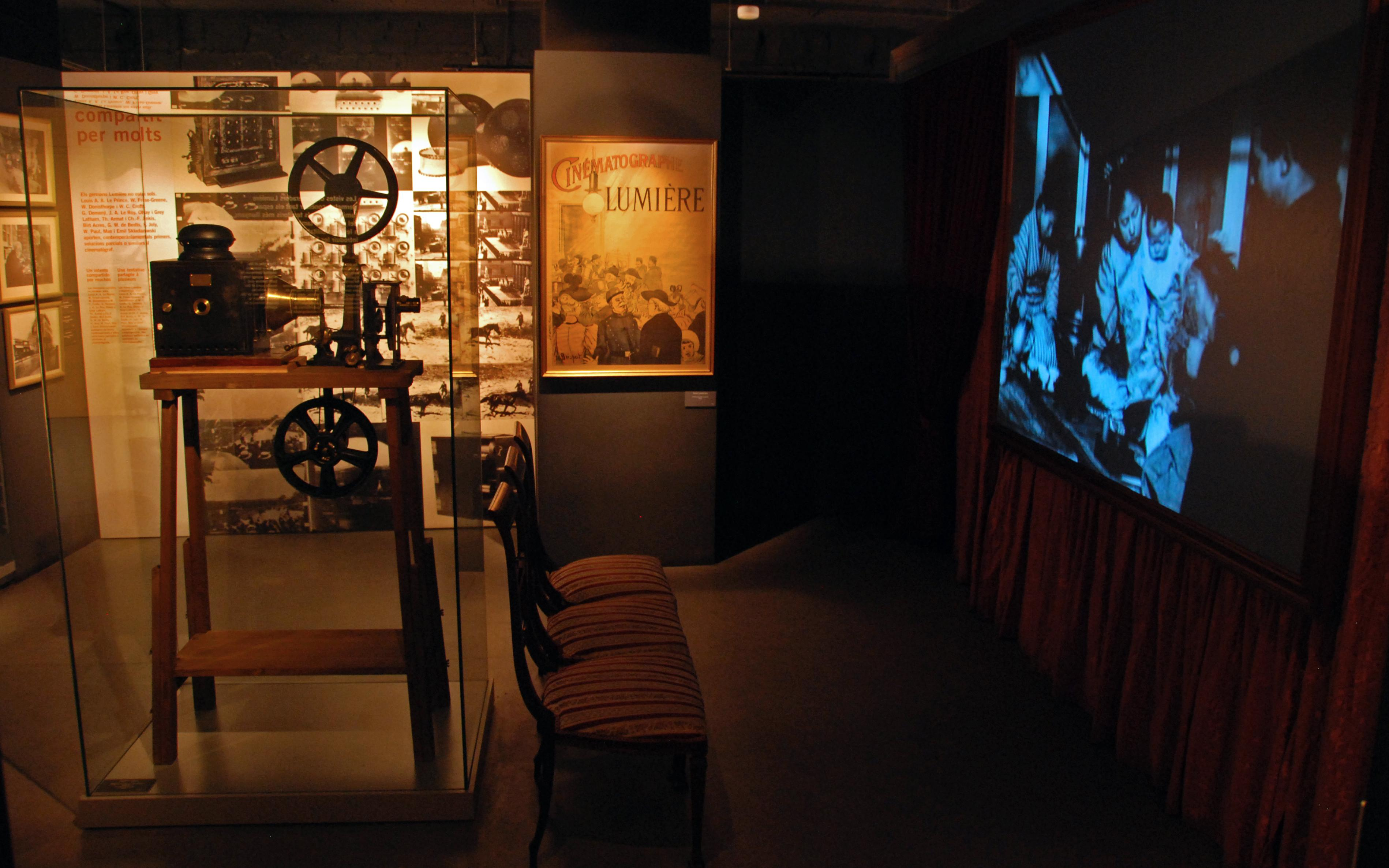 Cinema Museum. Girona (Catalonia)